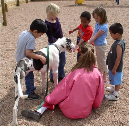 Work of a therapy dog: Stella visited her foster kids school to educate the kids about caring for animals and about handicaps. She had a blast!!!